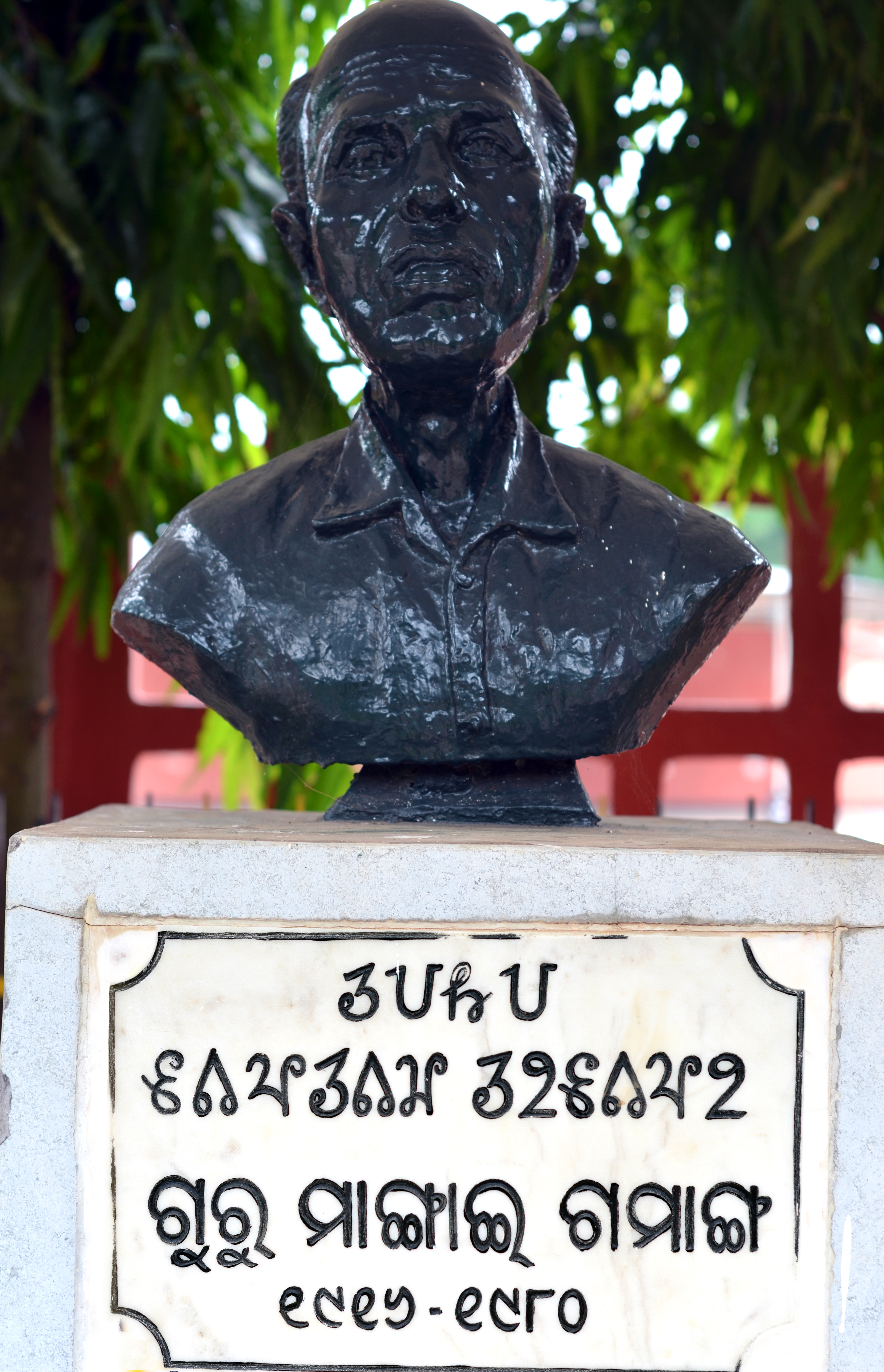 Mangei Gomango (1916-1980) created a the Soura alphabet. Gomango was born in Odisha, India.